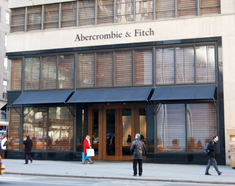 Abercrombie & Fitch, 720 5th Avenue at 56th Street.